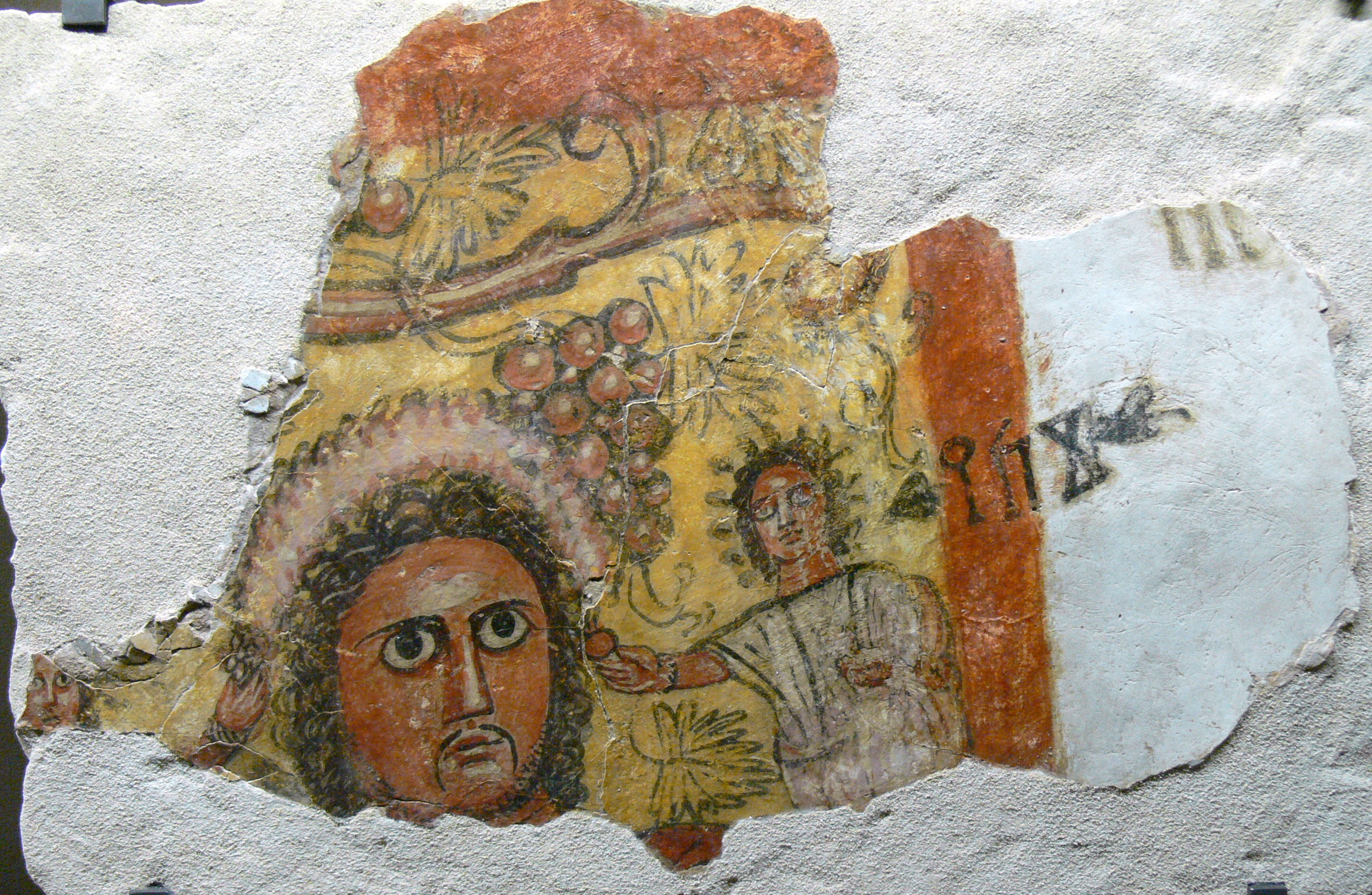 Pergamon Museum ( Berlin ). Exhibition "Roads of Arabia": Fragment of a wall painting with a man's head and an Old South Arabian inscription, probably a banquet scene ( 1st/2nd century AD ), black, red and yellow paint on white plaster, 53x36 cm, from Qaryat al-Faw, residential district ( National Museum, Riyadh ).